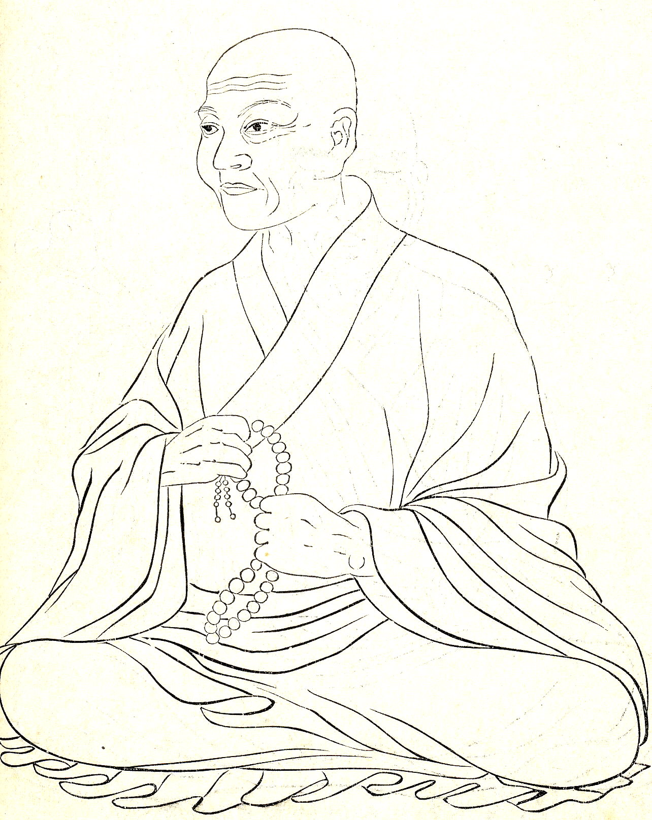 Unkei (運慶, 1151 – 1223) was a Japanese sculptor of the Kei school, which flourished in the Kamakura period. " Shuko-Jyusshu（集古十種）" is the picture book which was published in the middle of the Edo period of Japan.This image was scanned from the book which was reproduced in 1908.